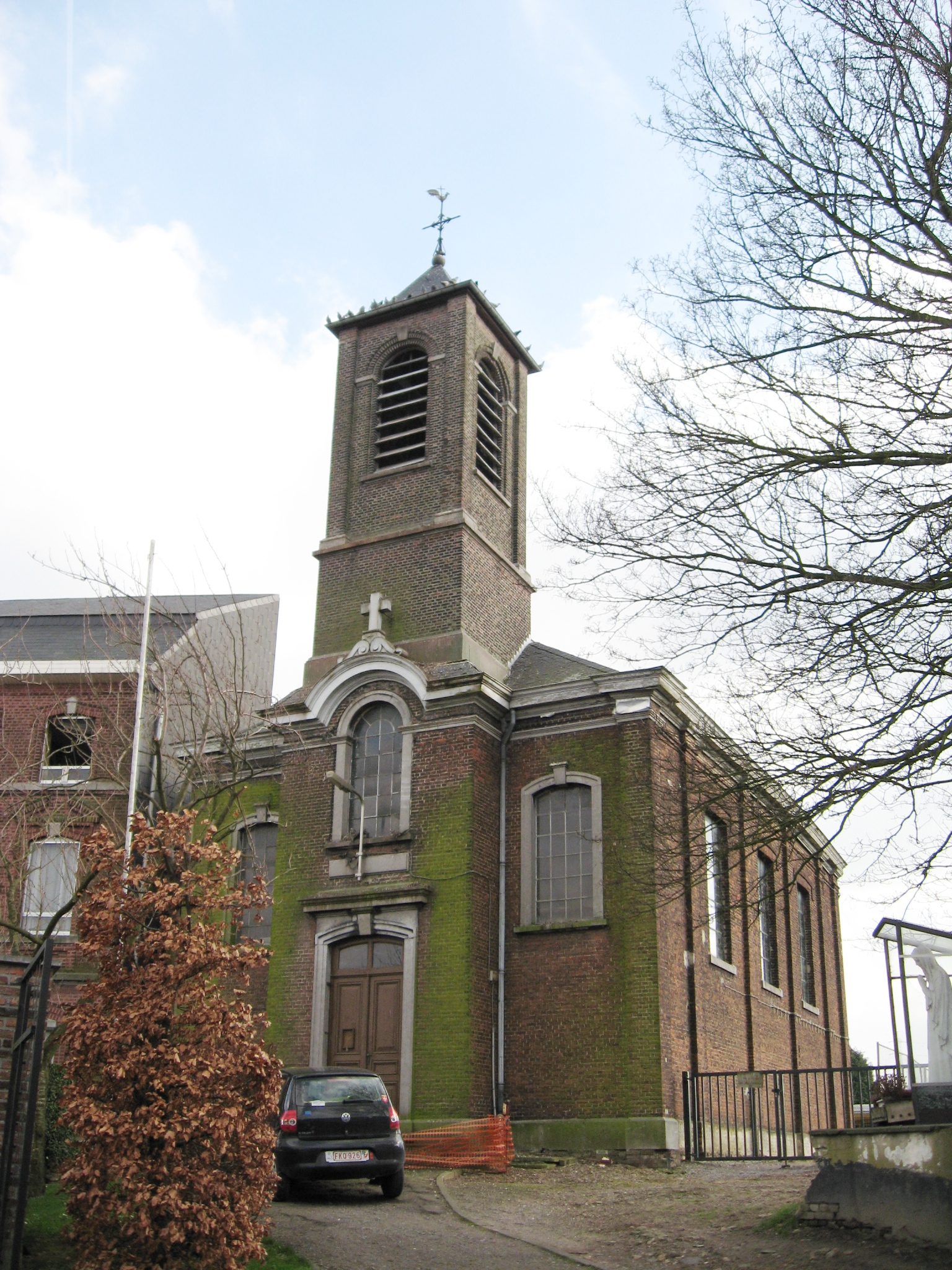 Church of Saint Joseph in Voroux-lez-Liers, Juprelle, Liège, Belgium